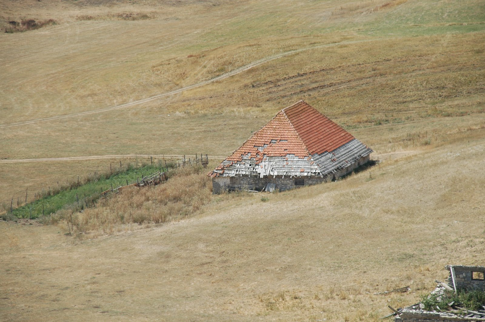 Old house at Morine plateau